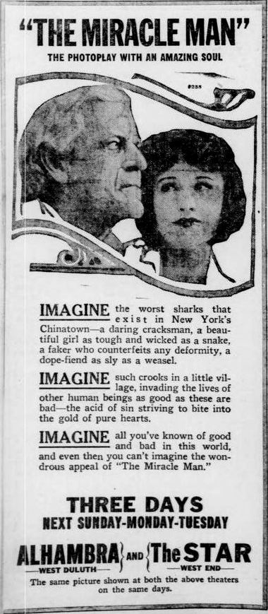 Newspaper ad for the American film The Miracle Man (1919) with Betty Compson and Joseph J. Dowling, on page 10 of the January 10, 1920 Duluth Herald.